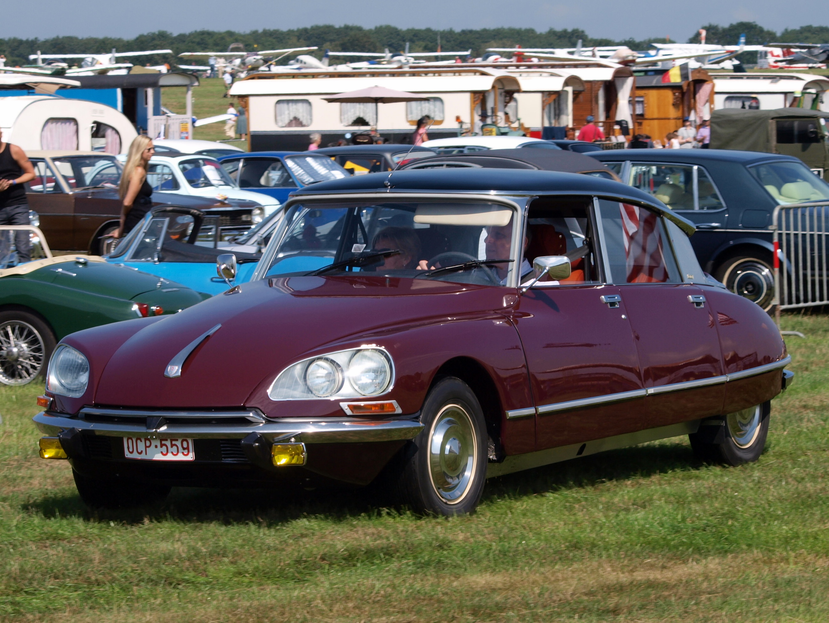 Photographed at The International Oldtimer Fly and Drive In 2010, Schaffen-Diest, Belgium.